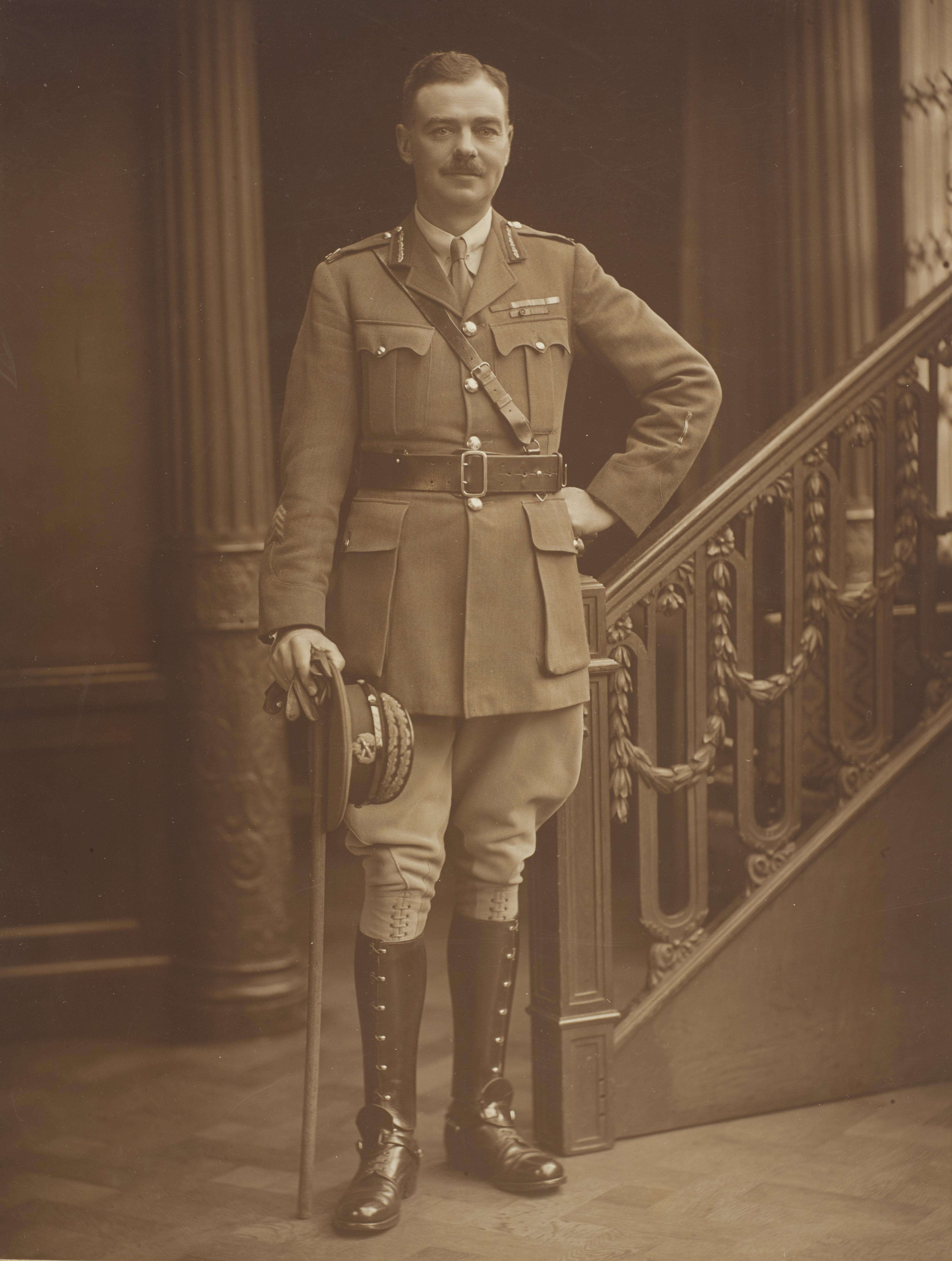 Brigadier-General-Melvill full